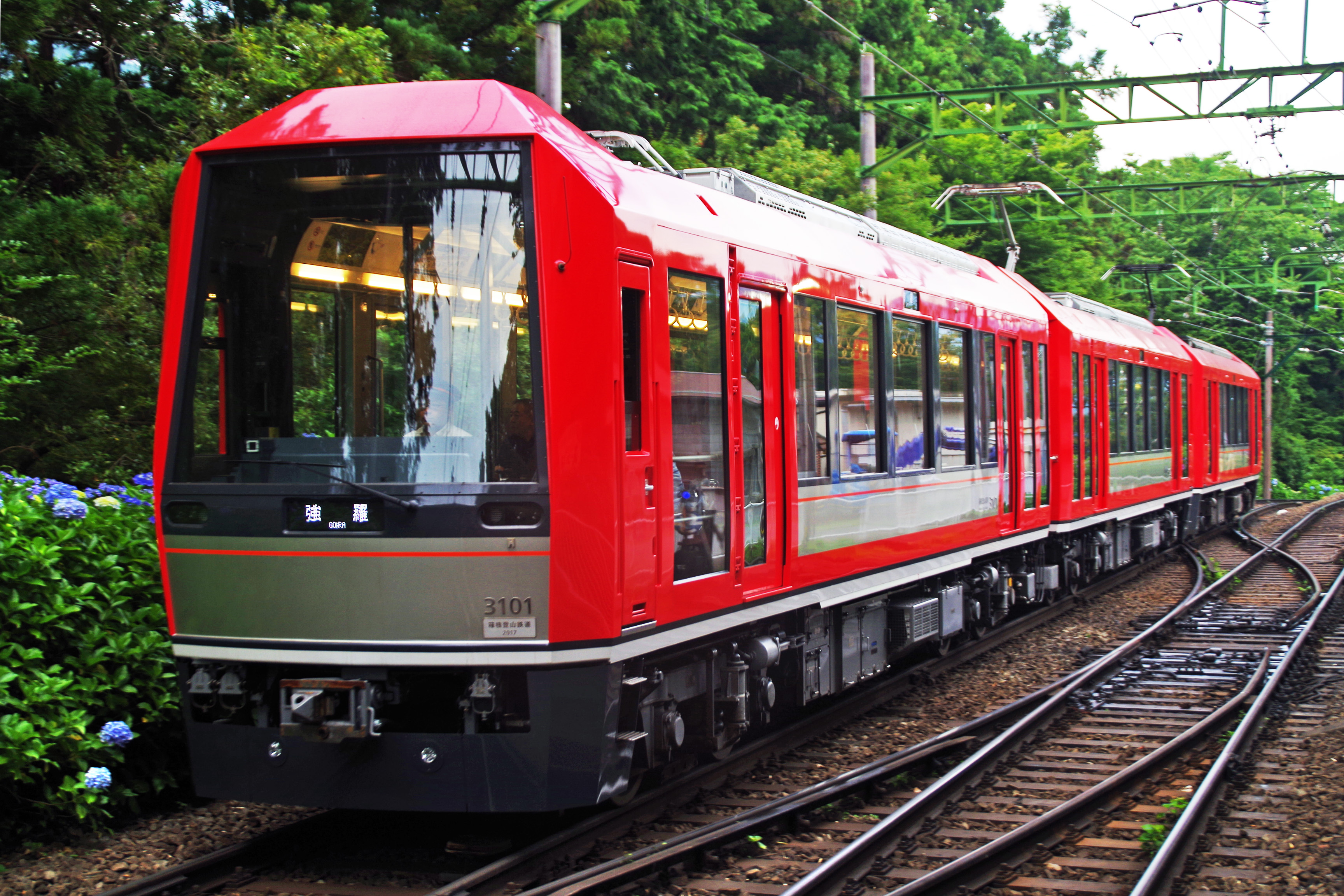 A Hakone Tozan Railway two-car 3100 series EMU set (3101) coupled to a single-car 3000 series car